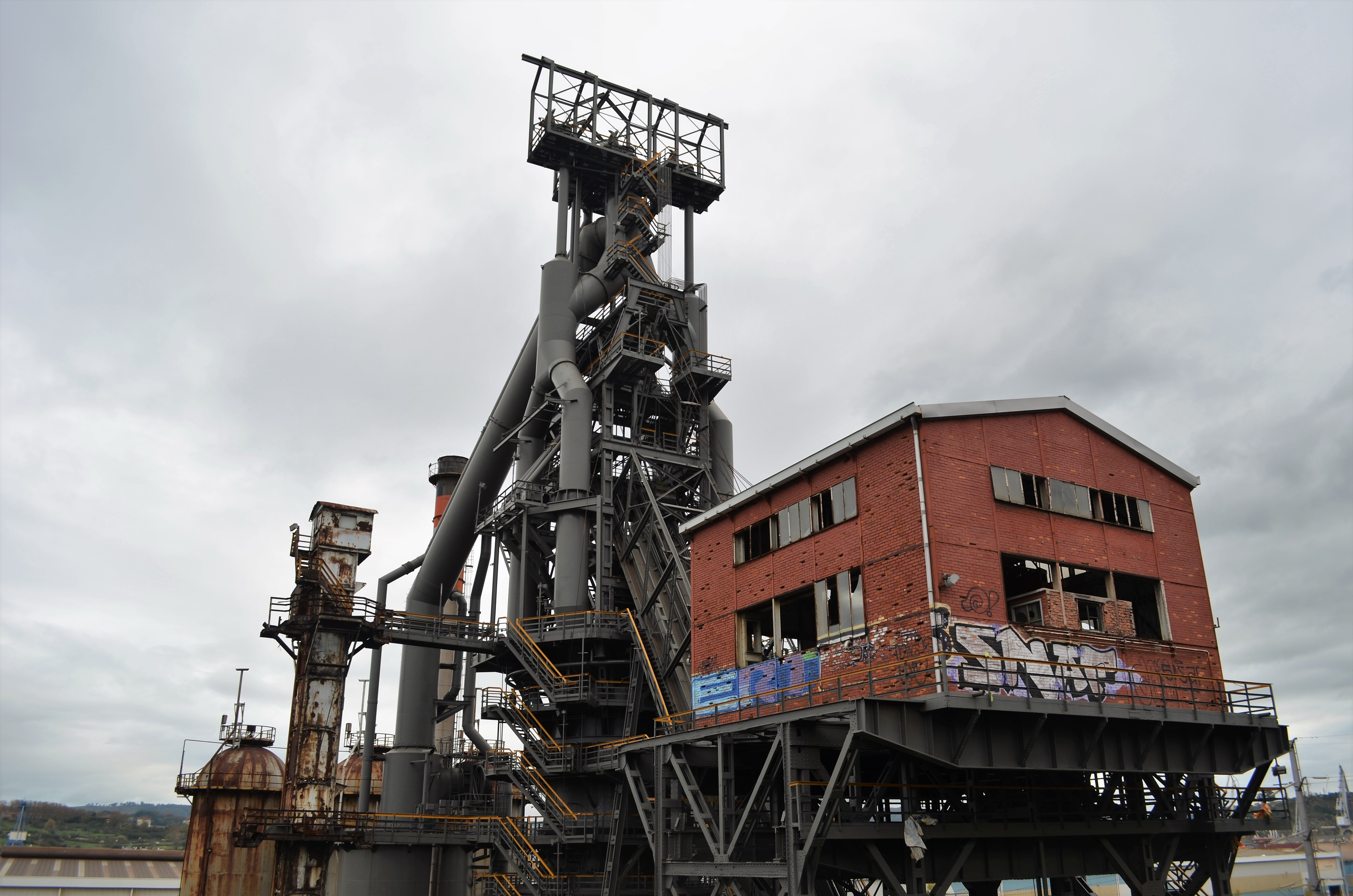 Alto Horno Nº1 (blas furnace) from the old enterprise Altos Hornos de Vizcaya, located in Sestao (Basque Country, Spain)